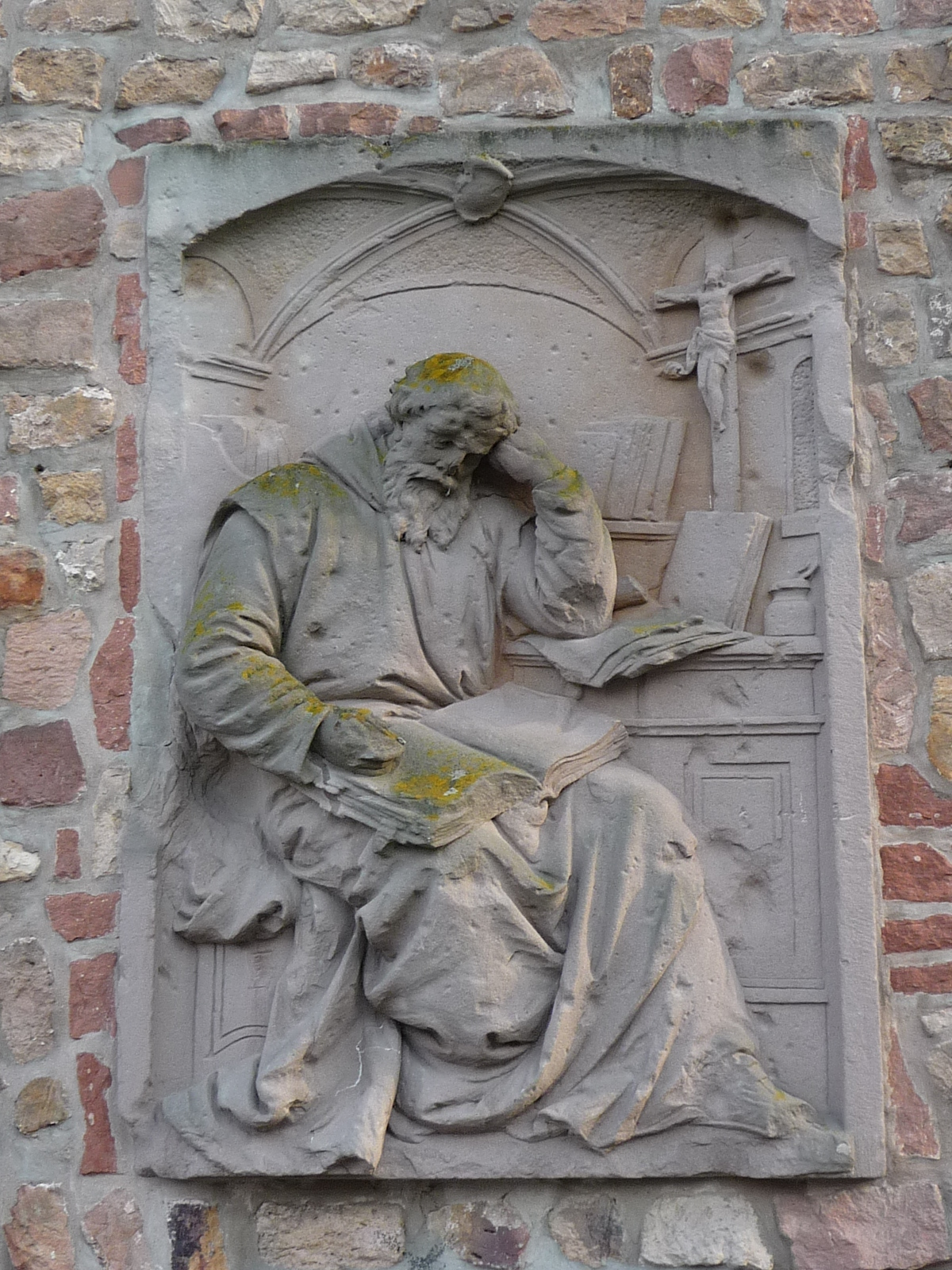 Otfried von Weißenburg